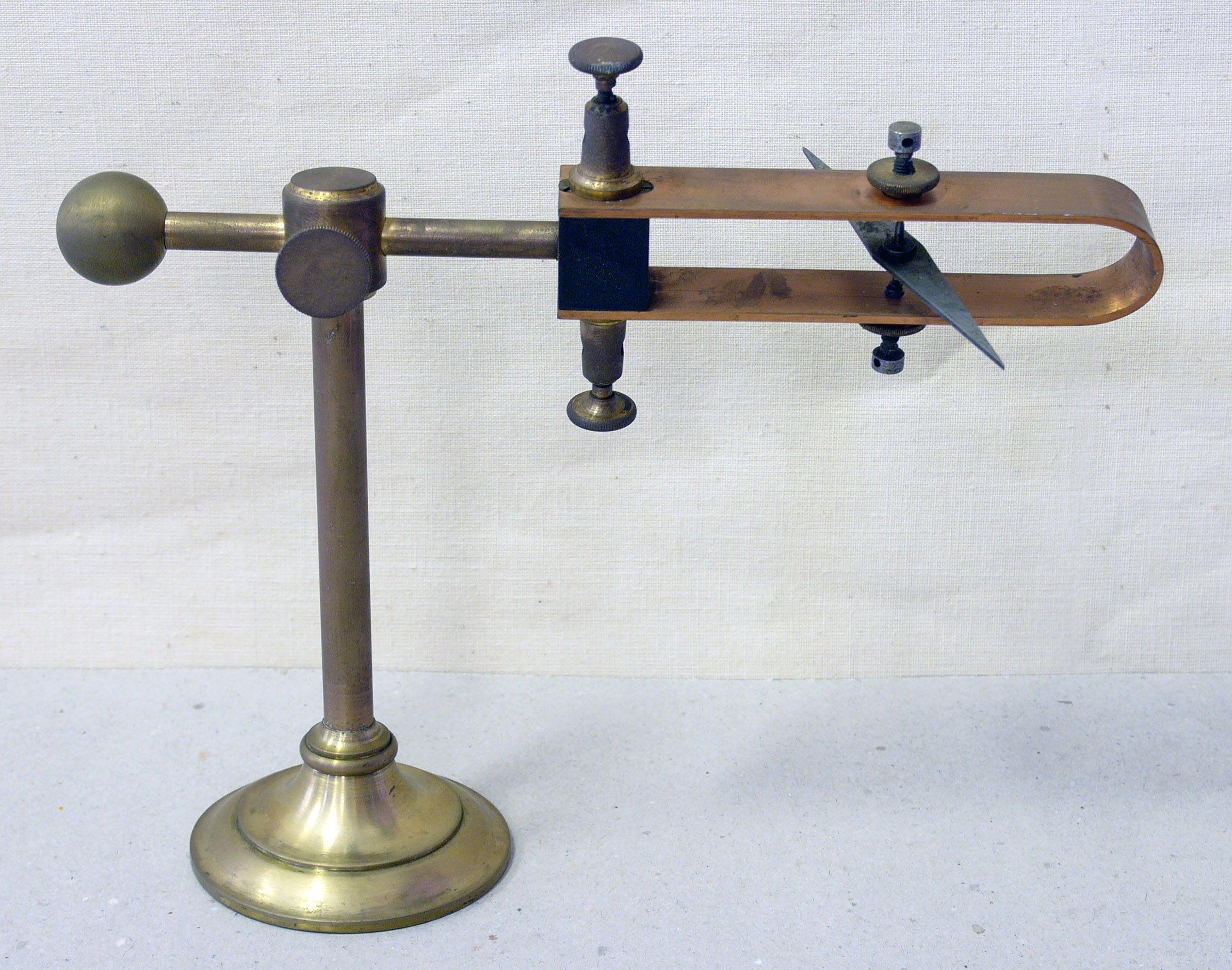 Magnetic declinometer, used to measure inclination of the Earth's magnetic field, on display in the Schulhistorische Sammlung (School Historical Museum), Bremerhaven, Germany.